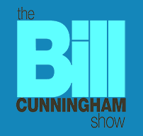 Bill Cunningham Show Logo. Source: CW affiliate site. This is a licensed logo for the Bill Cunningham Show. It will be used to represent the show.